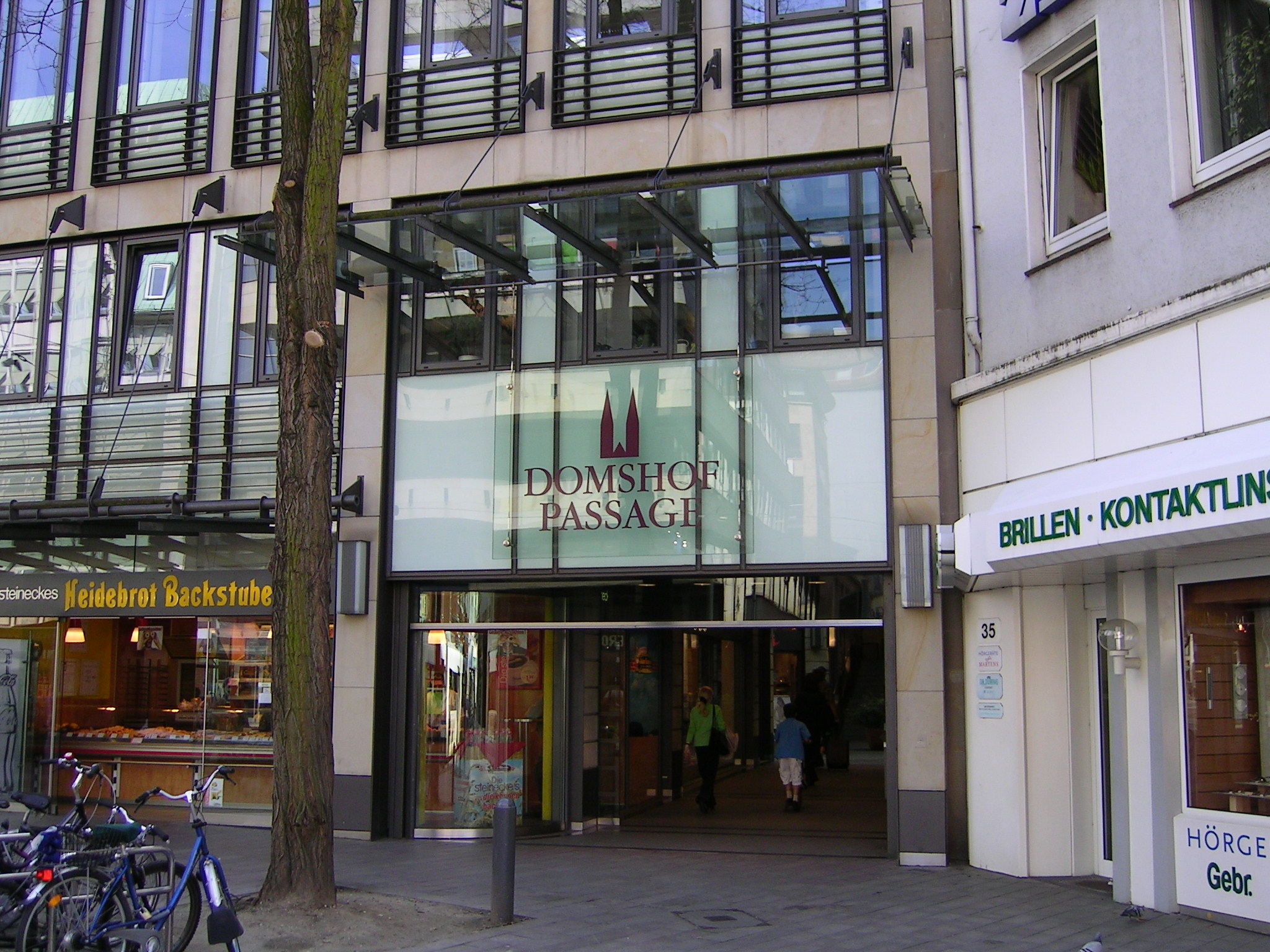 Domshof Passage